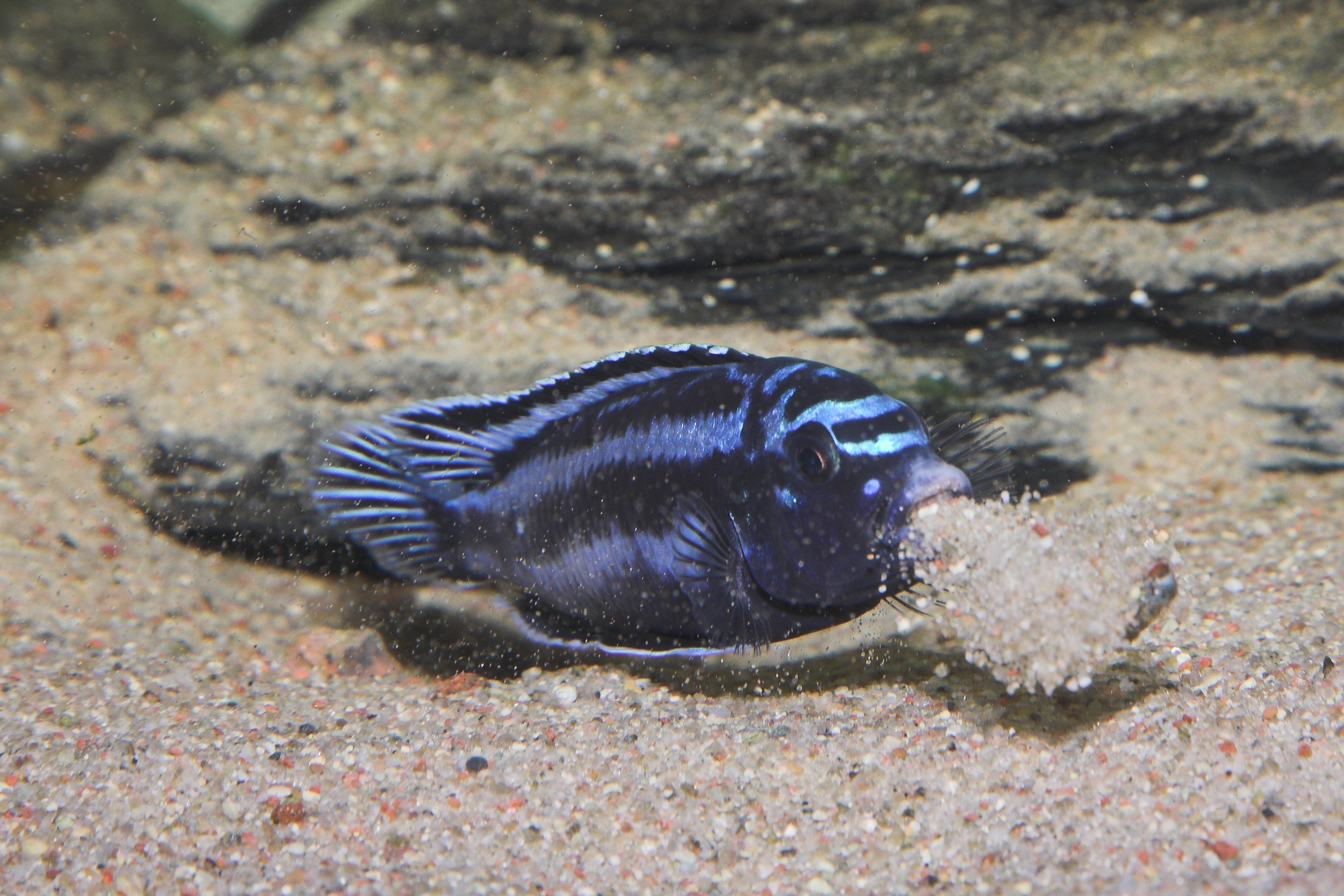 Pseudotropheus cyaneorhabdos - male